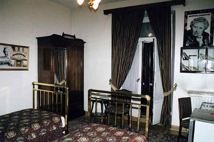 Room 411 at the Pera Palas hotel in Istanbul, Turkey, the room where Agatha Christie wrote Murder on the Orient Express. Photo by Steve Hopson, November, 2004. See more photos at Steve Hopson Photography. Usage requires attribution to Steve Hopson Photography